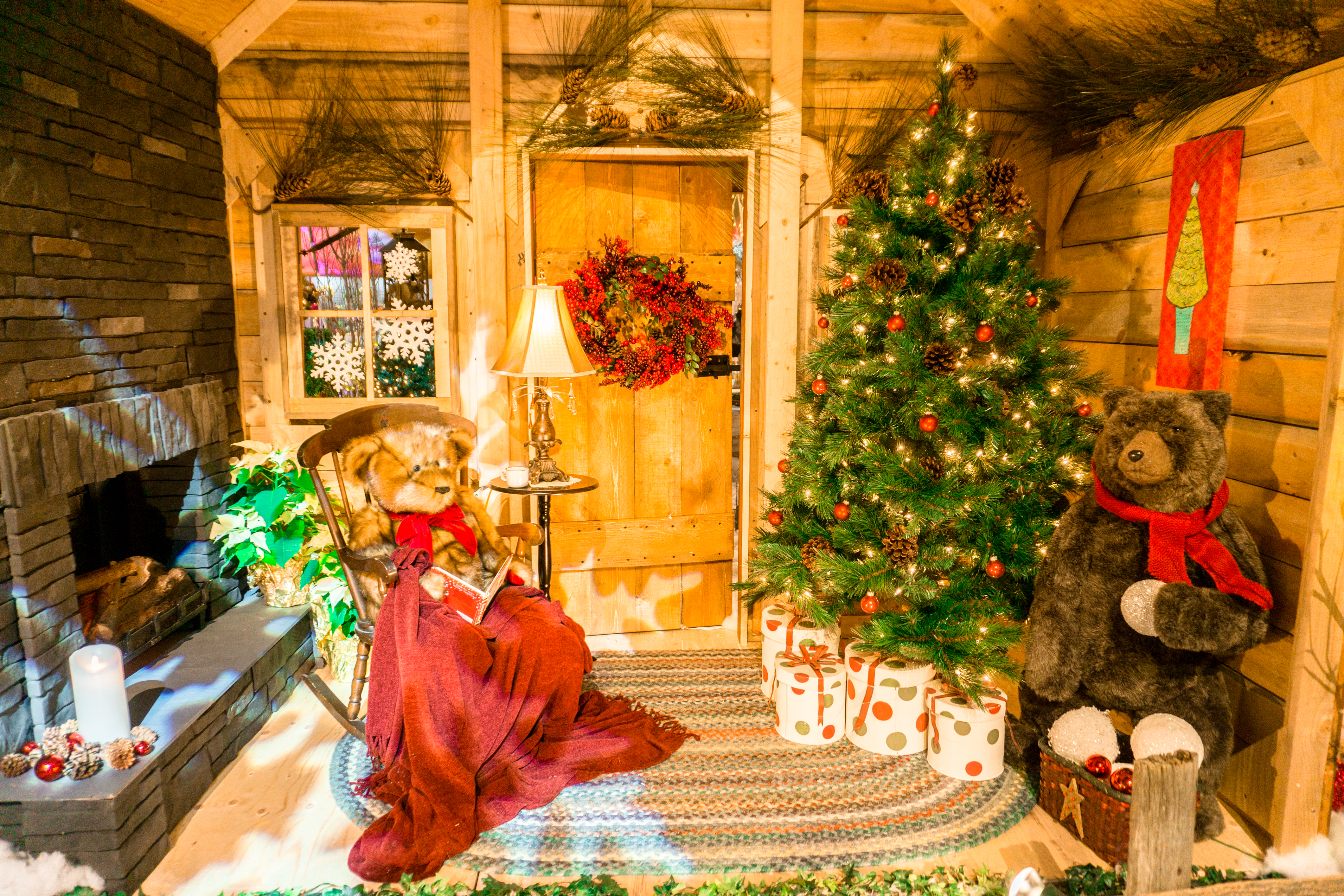 Edmonton Festival of Trees